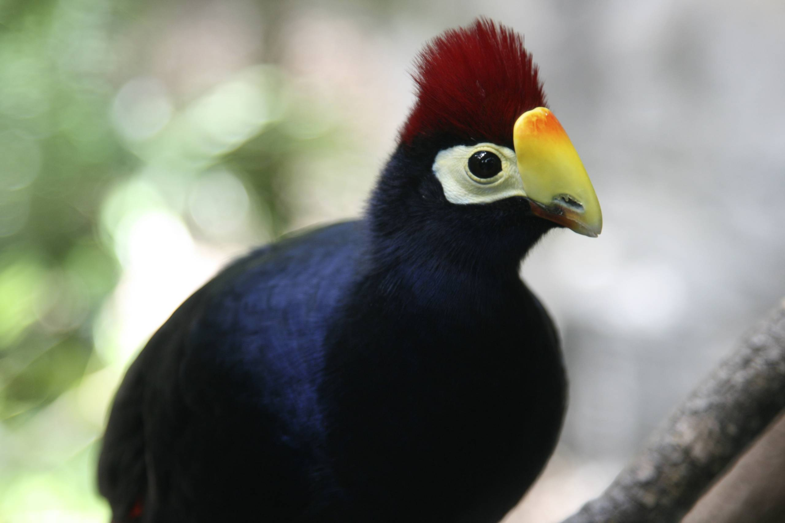 Ross' Turaco (also known as Lady Ross' Turaco) at Houston Zoo, Houston, Texas, USA.